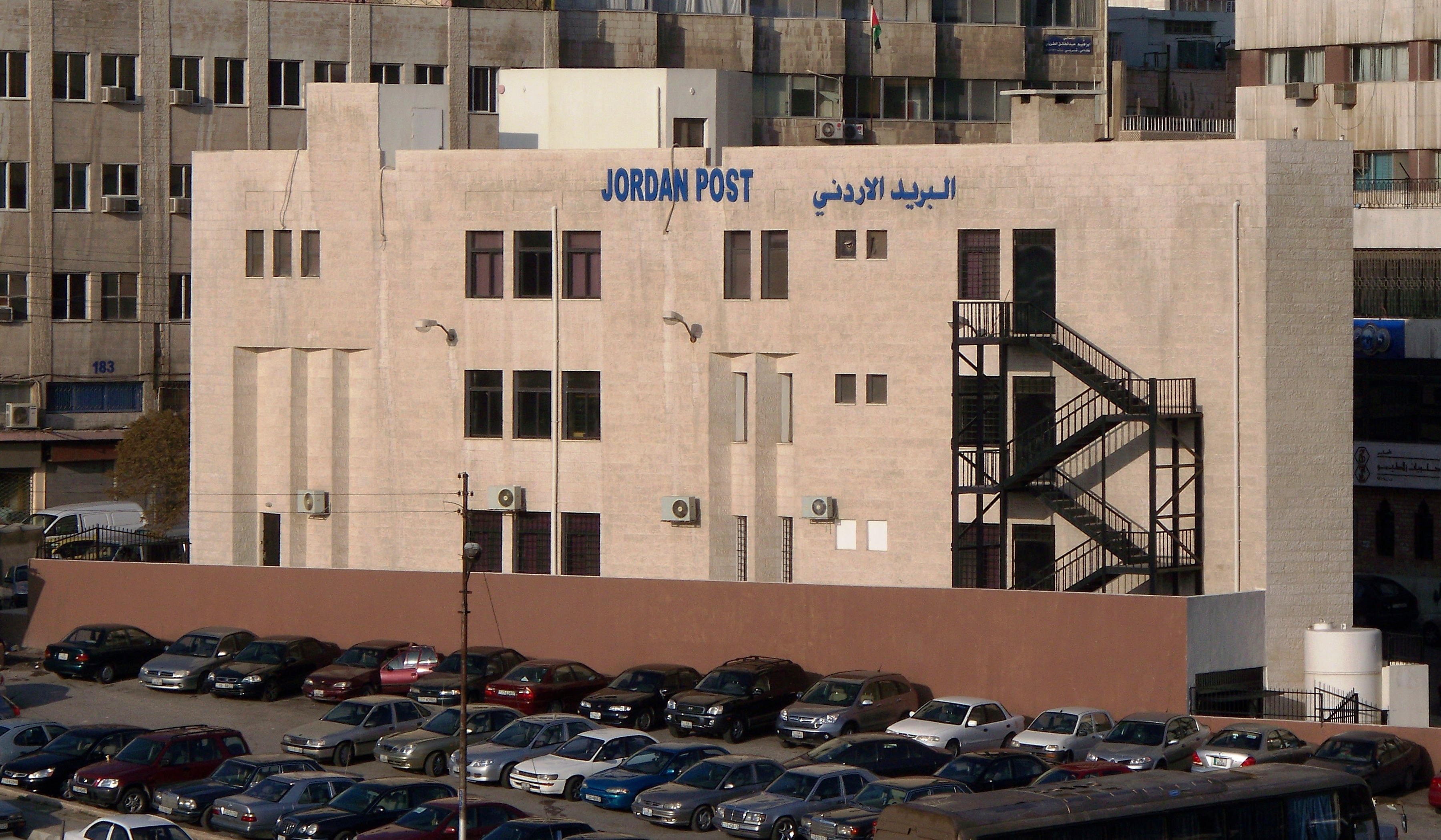 The Jordan Post in Amman, Jordan, 2009.